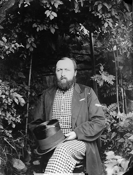 Teitl Cymraeg/Welsh title:John Ceiriog Hughes (1867) Ffotograffydd/Photographer: John Thomas (1838-1905) Dyddiad/Date: [ca. 1867] Cyfrwng/Medium: Negydd gwydr / Glass negative Maint/Dimensions: 21.5 x 16.5 cm. Cyfeiriad/Reference: jth01592 Rhif cofnod / Record no.: 3362543 Rhagor o wybodaeth am gasgliad John Thomas yn Llyfrgell Genedlaethol Cymru More information about the John Thomas Collection at the National Library of Wales Mae ffotograffau John Thomas hefyd yn rhan o Broject Europeana Libraries John Thomas' photographs also form part of the Europeana Libraries Project